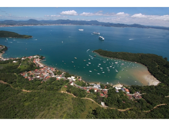 Steel Box South View